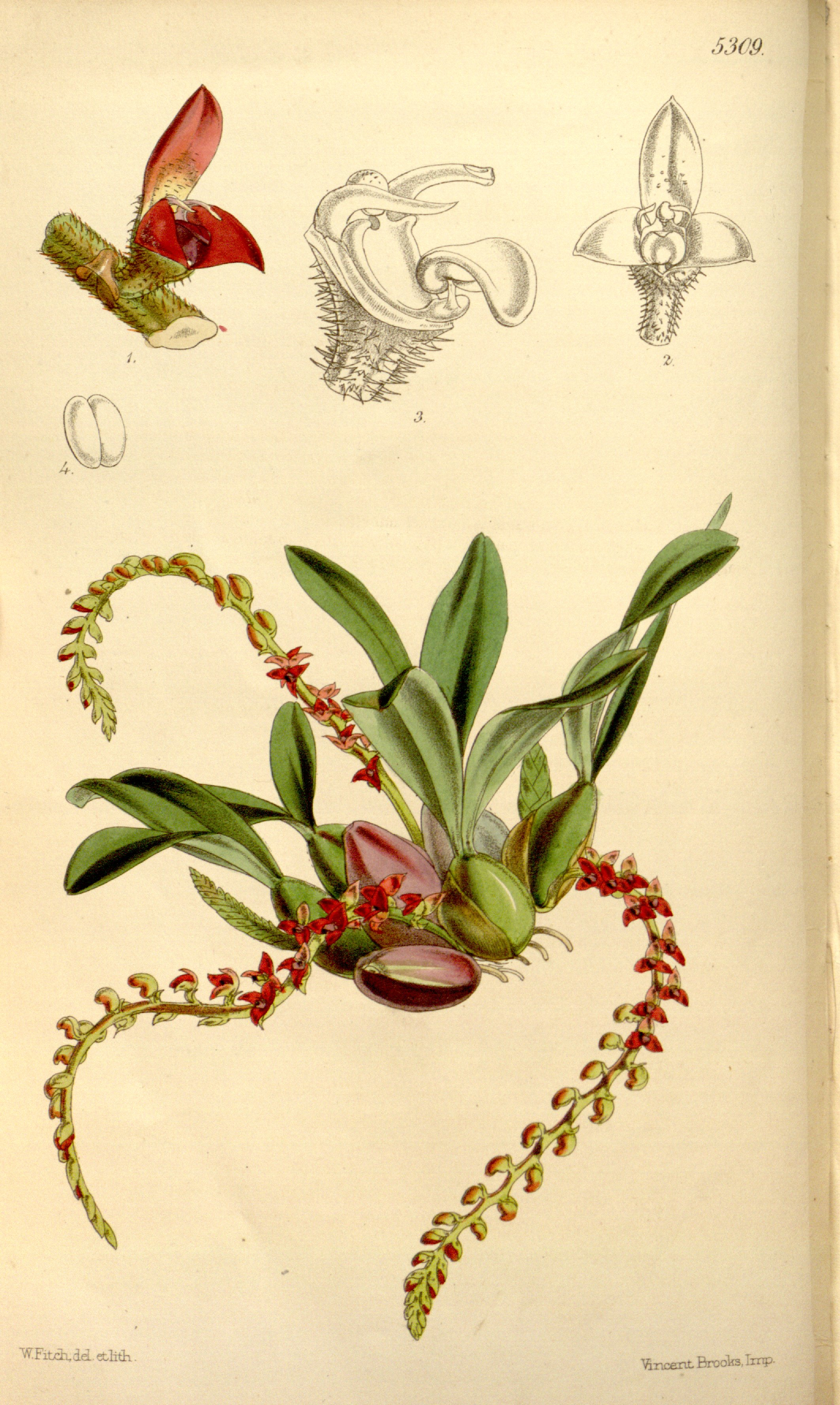 Illustration of Bulbophyllum falcatum var. velutinum (as syn. Bulbophyllum rhizophorae, spelled by Hooker as Bolbophyllum rhizophorae)